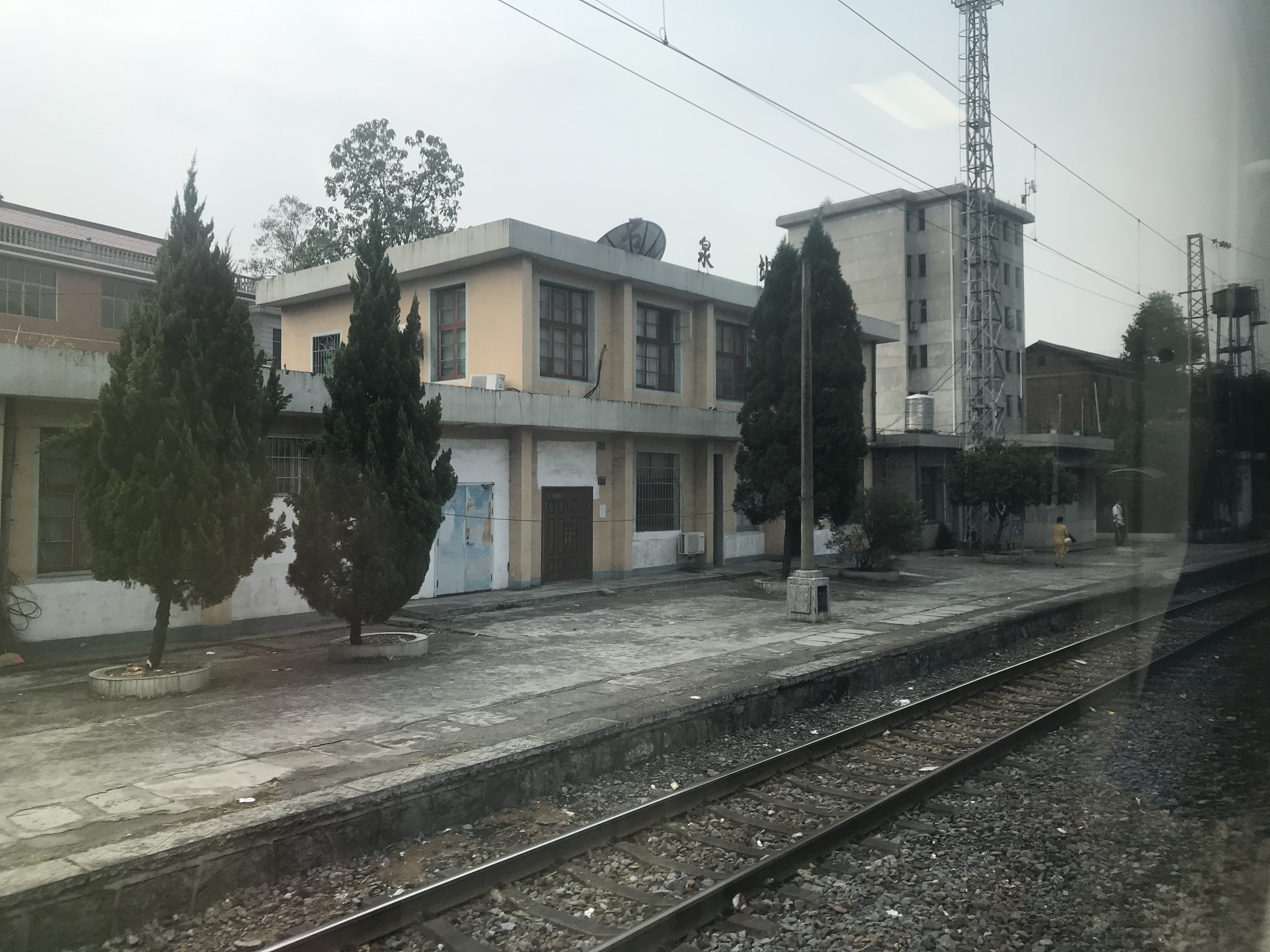 201908 Station Building of Shiquan